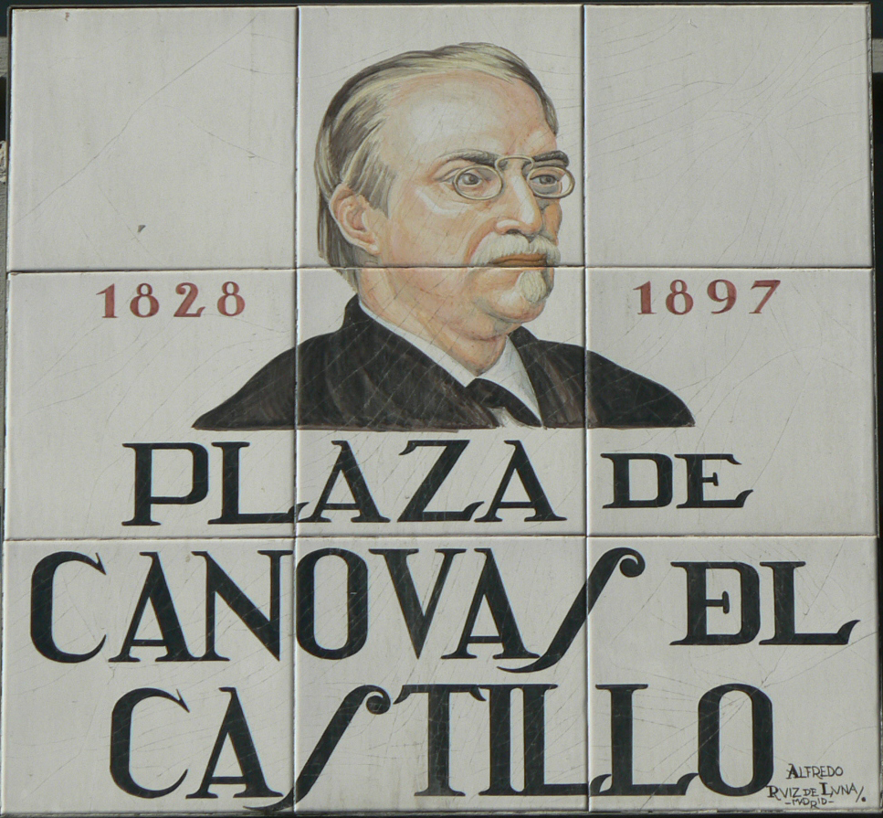 Sign of Plaza de Cánovas del Castillo (street, Centro district) in Madrid (Spain).